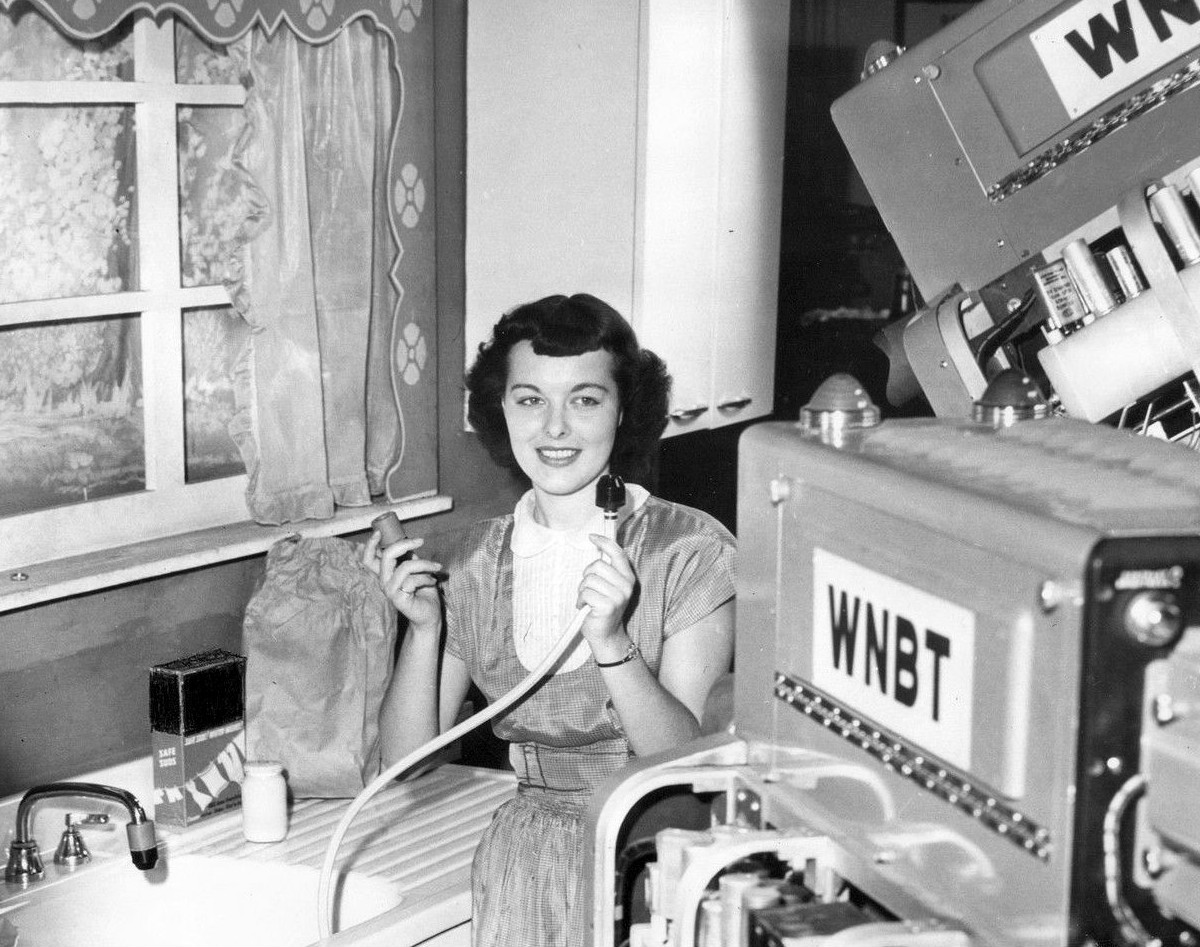 Photo of a 1948 television commercial. The product is the faucet aerator the woman is holding. The commercial was being done at WNBT, which is now WNBC-TV, New York.